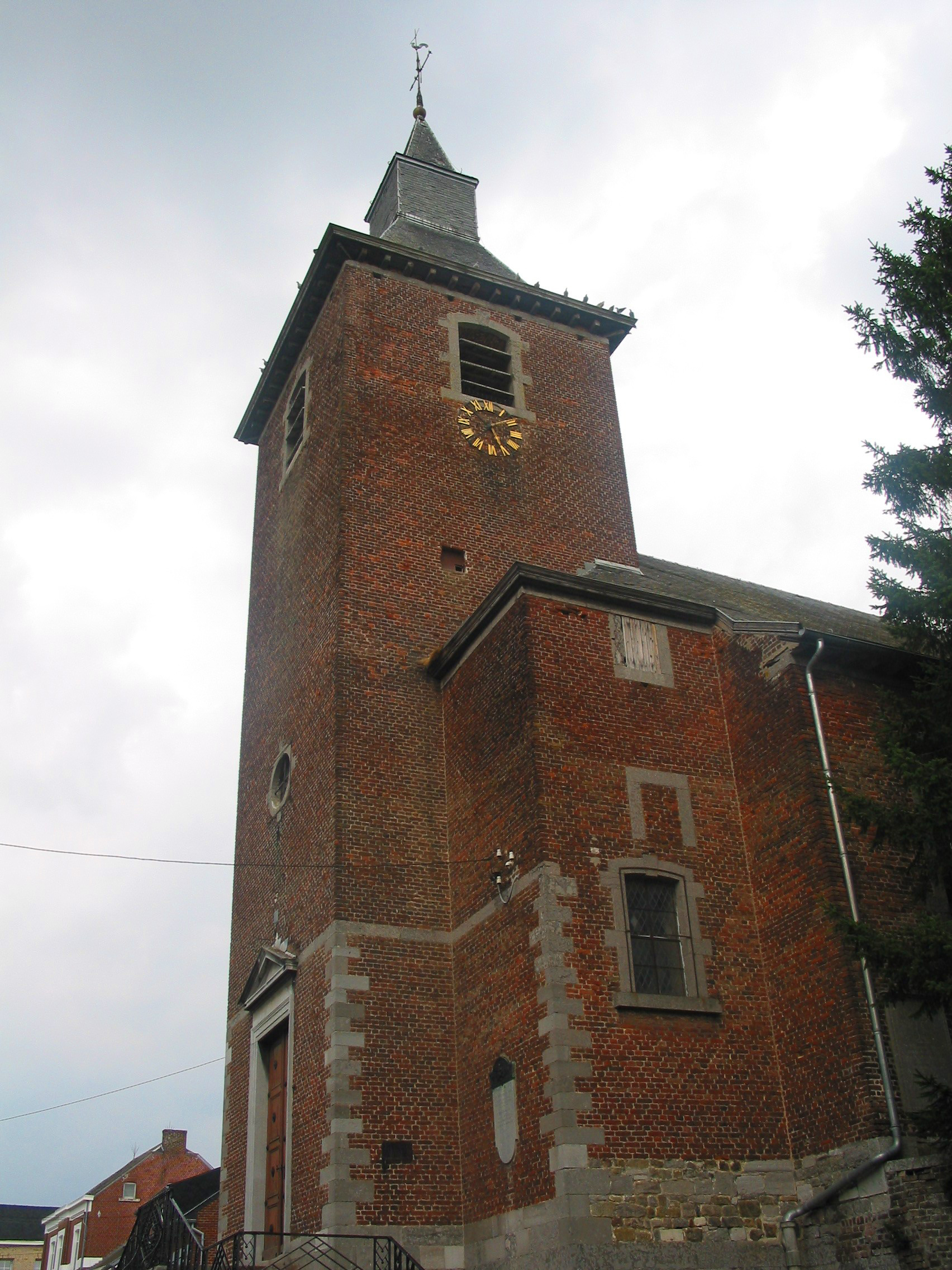 Wasseiges (Belgium), the Saint Martin's church.